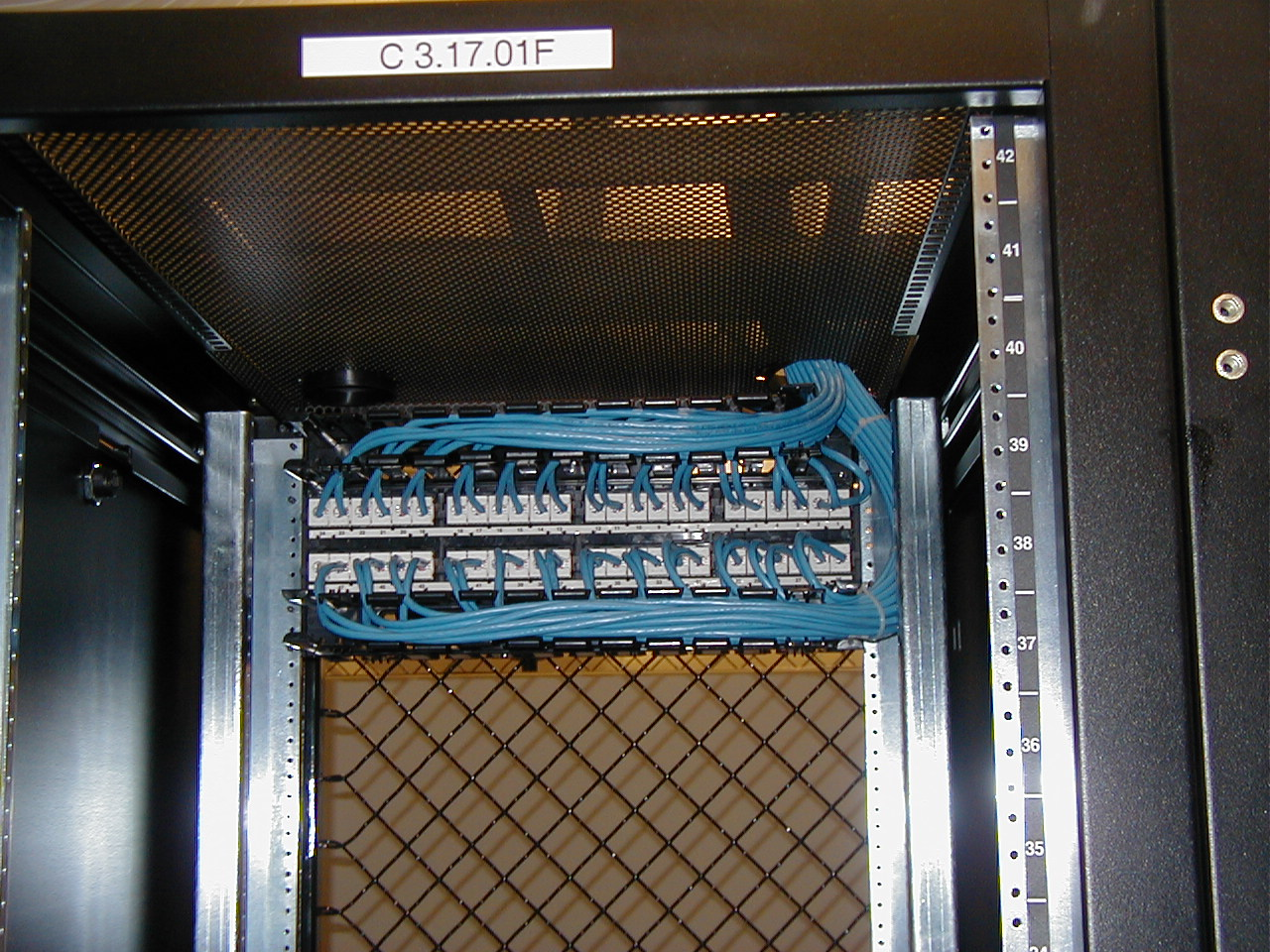 Network Patch Panel Clean Back